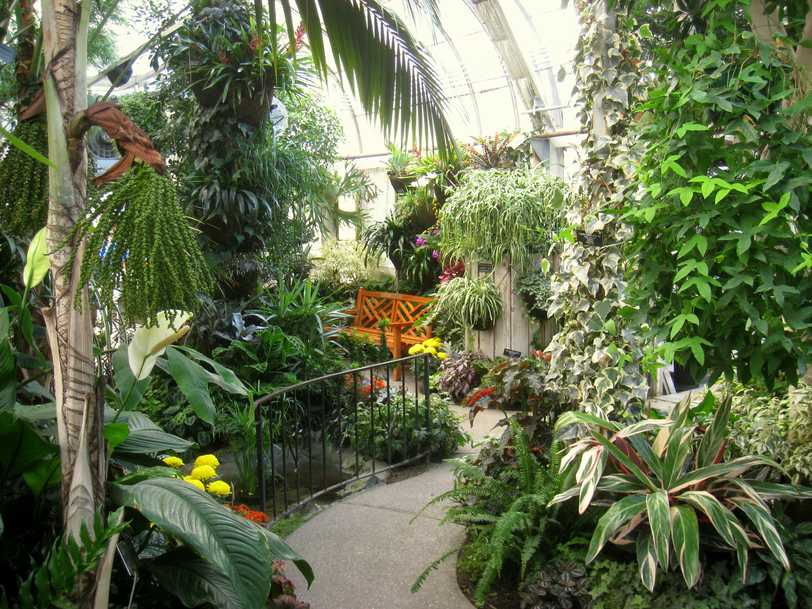 Gaiser Conservatory, Manito Park, Spokane, Washington, USA.